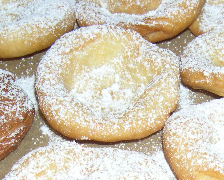 Knieküchle a type of fried dough food from Germany